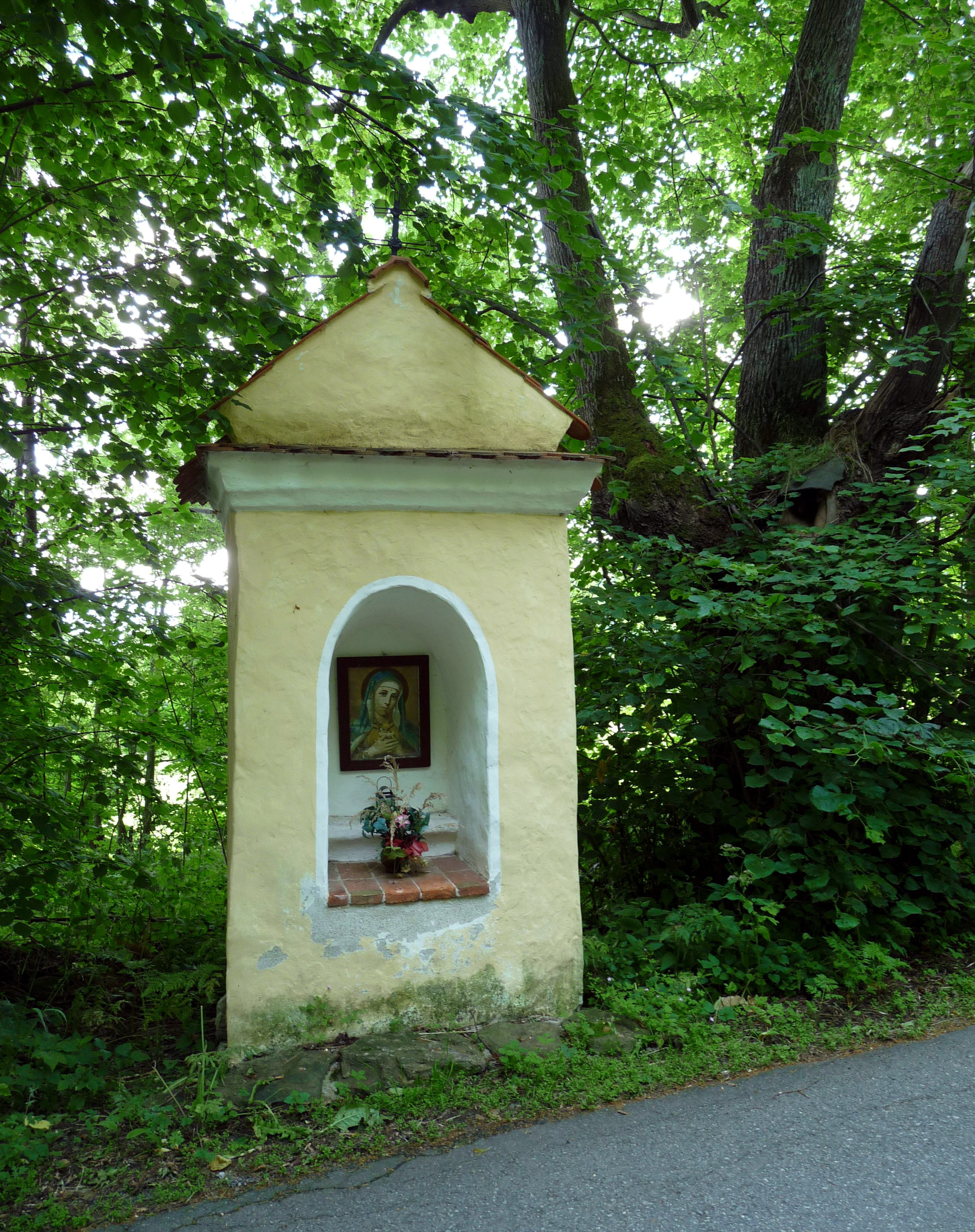 Wayside shrine at the vilage of Perlovice, Prachatice District, South Bohemian Region, Czech Republic.